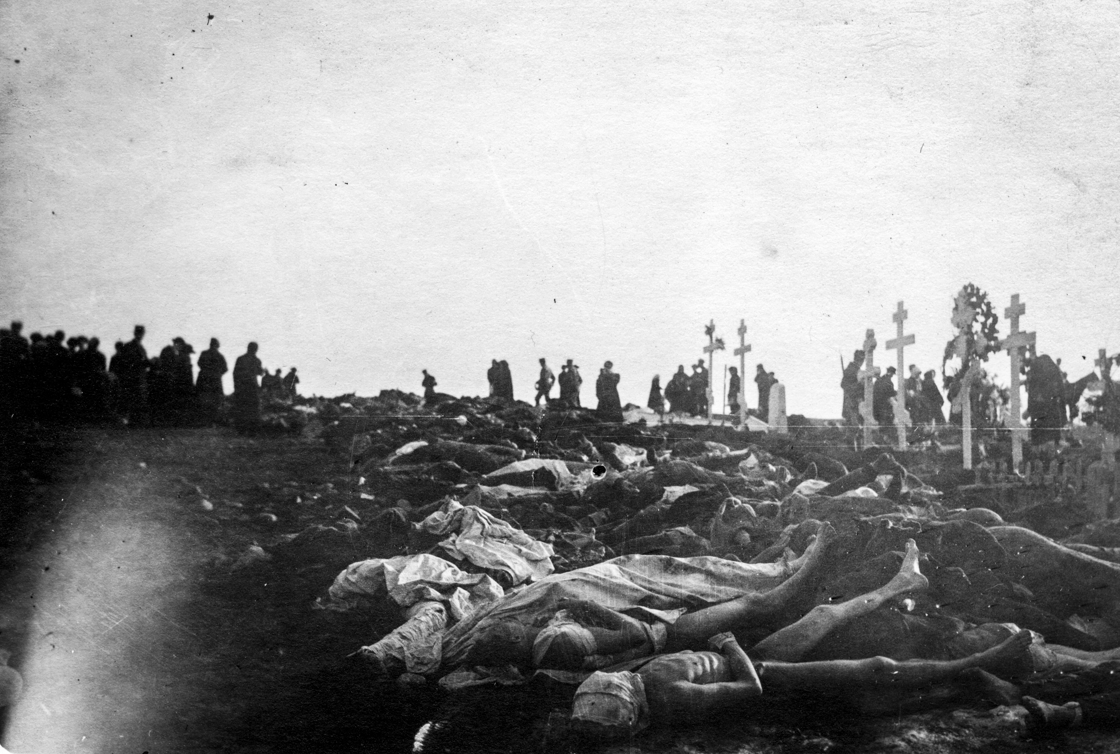 Bodies of the Reds at the Kalevankangas cemetery after the Battle of Tampere of the Finnish Civil War